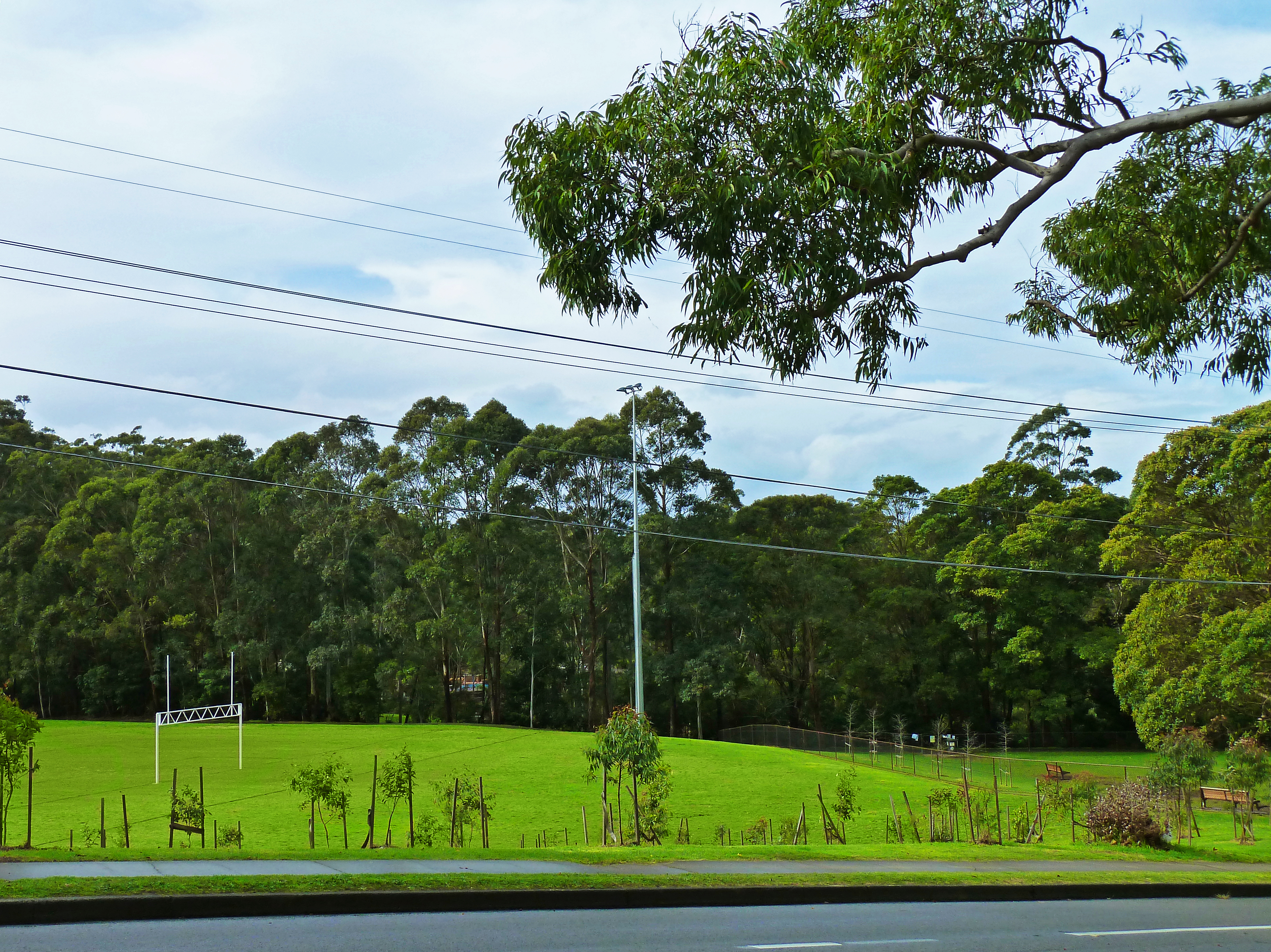 Bicentennial Park, from Yanko Road, West Pymble, New South Wales, Australia.